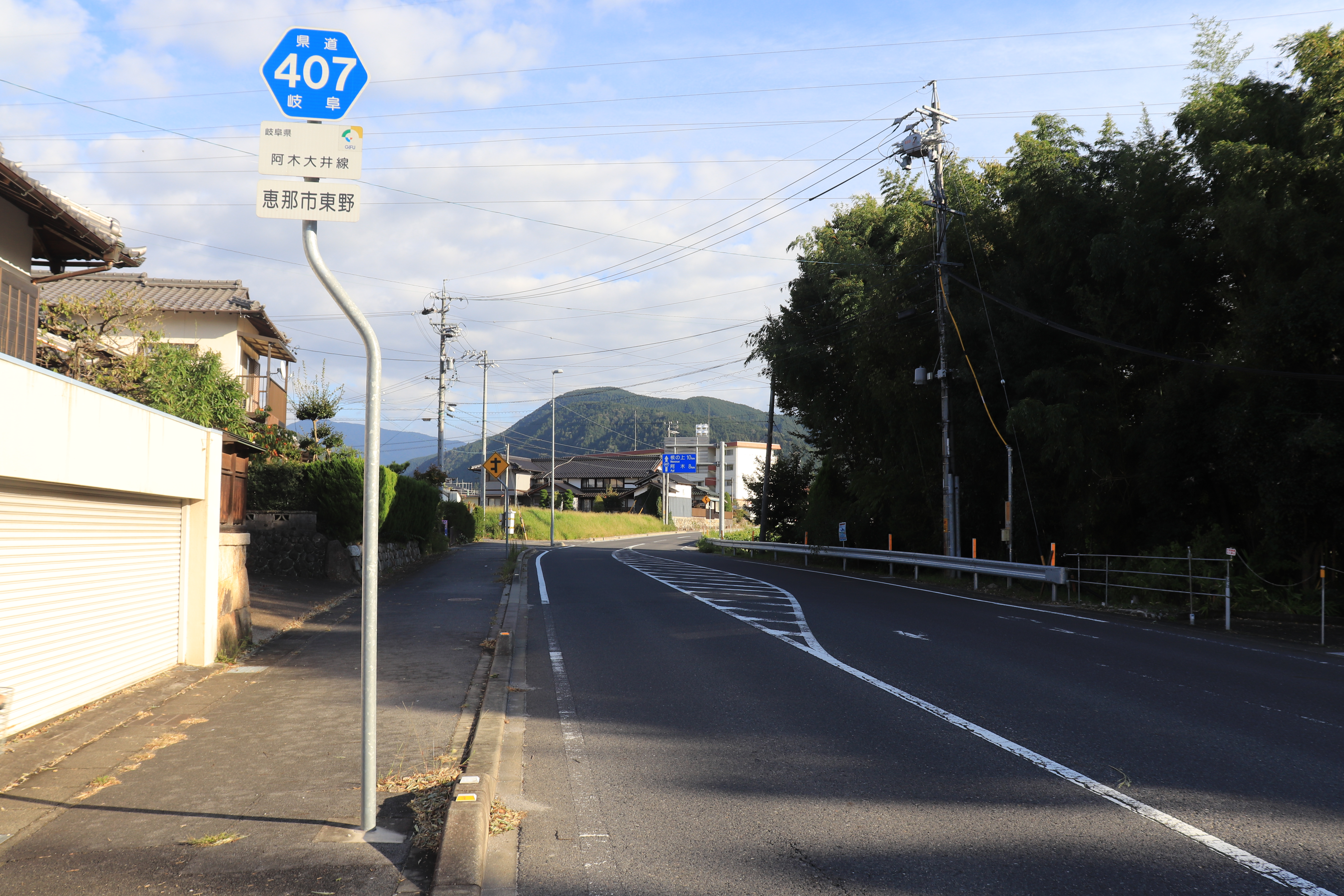 Gifu Prefectural Road Route 407 (Agi-Ōi Line) in Higashino, Ena, Gifu Prefecture, Japan.